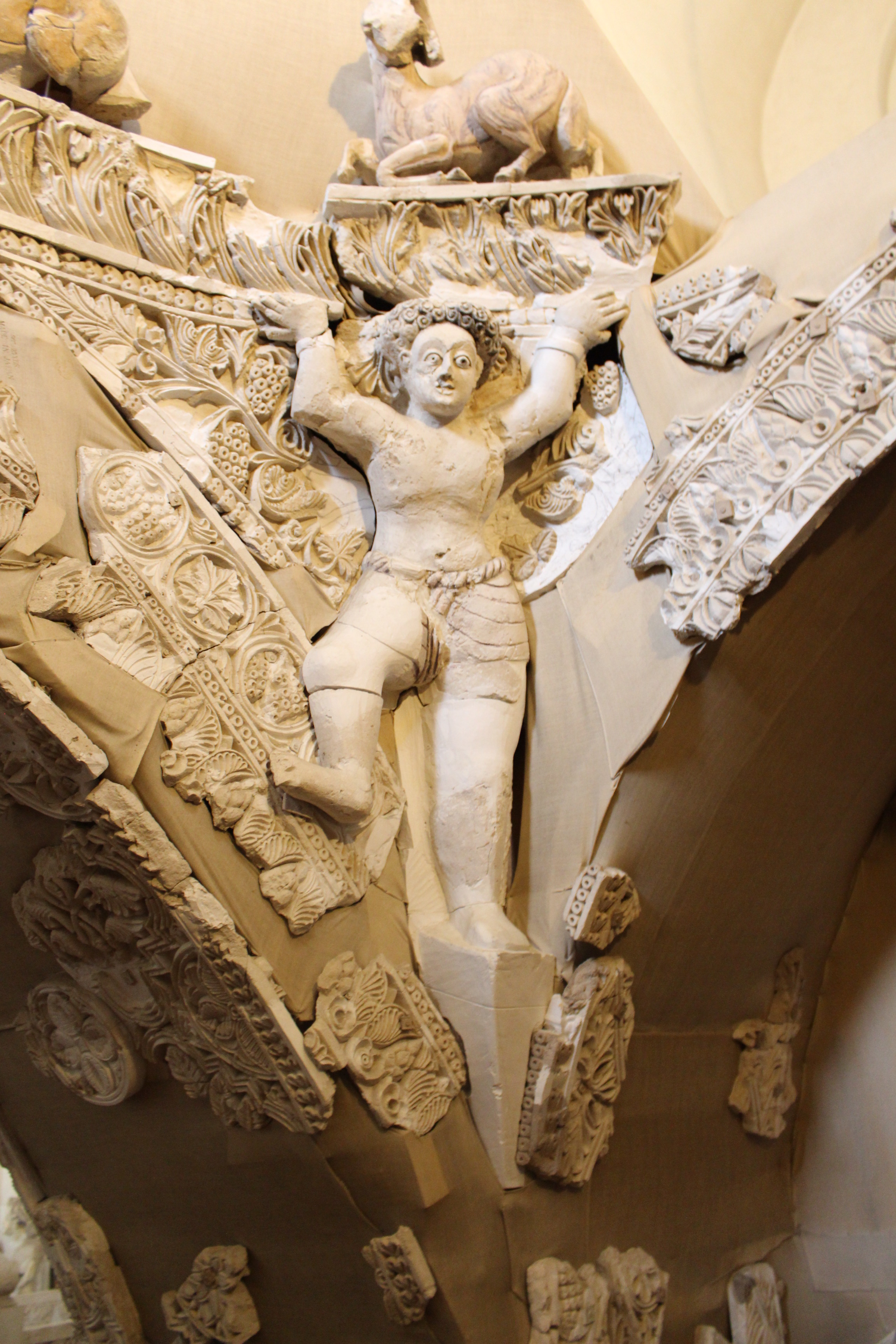 Hisham's Palace (Khirbat al Mafjar) remains at the Rockefeller Museum, Jerusalem